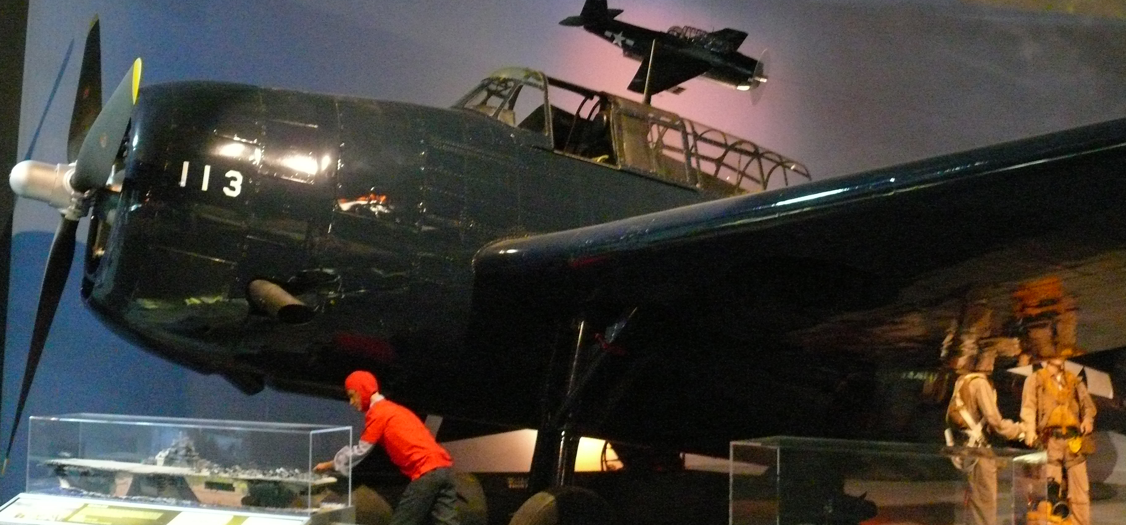 Grumman/Eastern Aircraft TBM-3E Avenger in the Cradle of Aviation Museum. The Grumman TBF Avenger (designated TBM for aircraft manufactured by General Motors) was a torpedo bomber developed initially for the United States Navy and Marine Corps, and eventually used by several air or naval arms around the world. It entered U.S. service in 1942, and first saw action during the Battle of Midway.